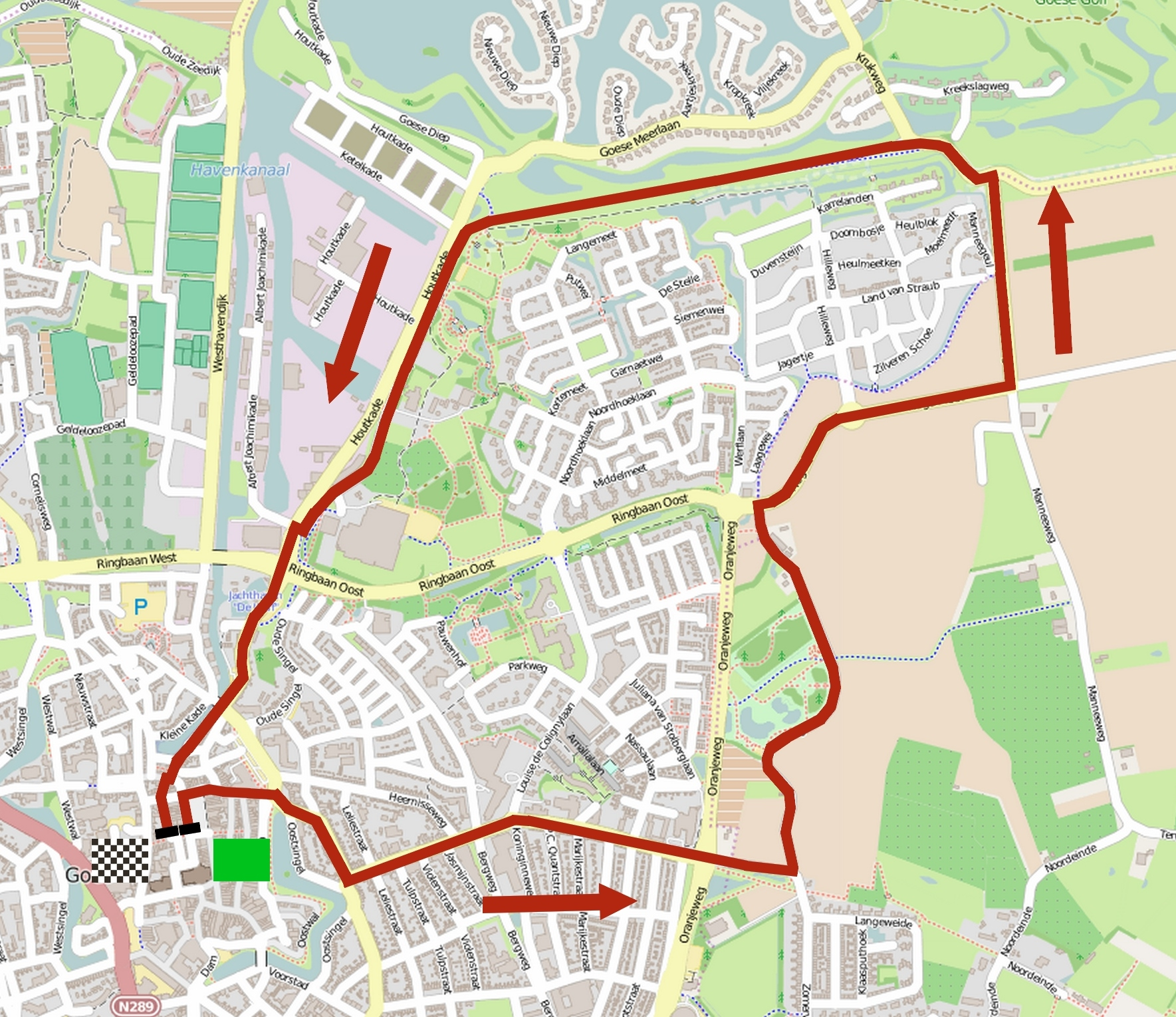 Parcours du prologue du Ster ZLM Toer 2015 à Goes. This map may be incomplete, and may contain errors. Don't rely solely on it for navigation.